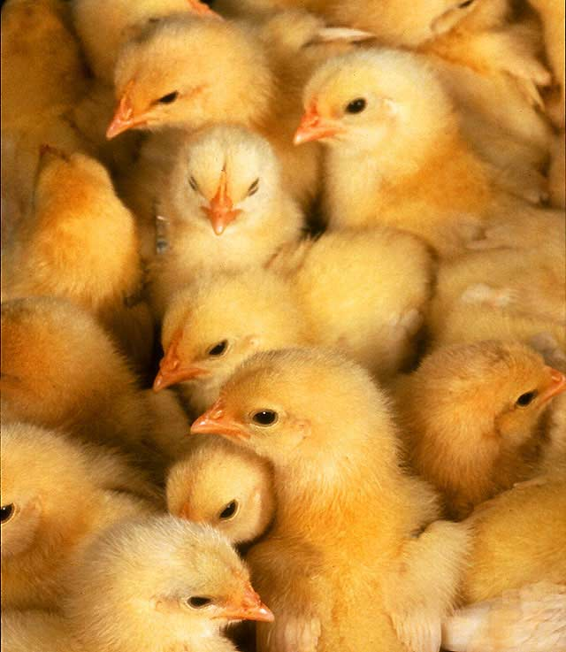 They're the Royal Canadian Mounties of the immune system-the heroes who show up in the nick of time-and they take on all bacterial invaders, be they salmonella, listeria, pasteurella, or E. coli. They're infection-fighting white blood cells called heterophils, and poultry immunologist Michael Kogut has found a way to make them do his bidding to protect young poultry.